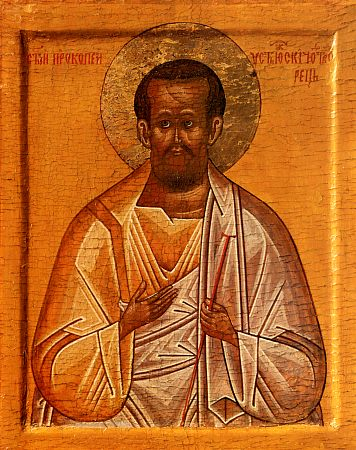 Ancient icon of Procopius